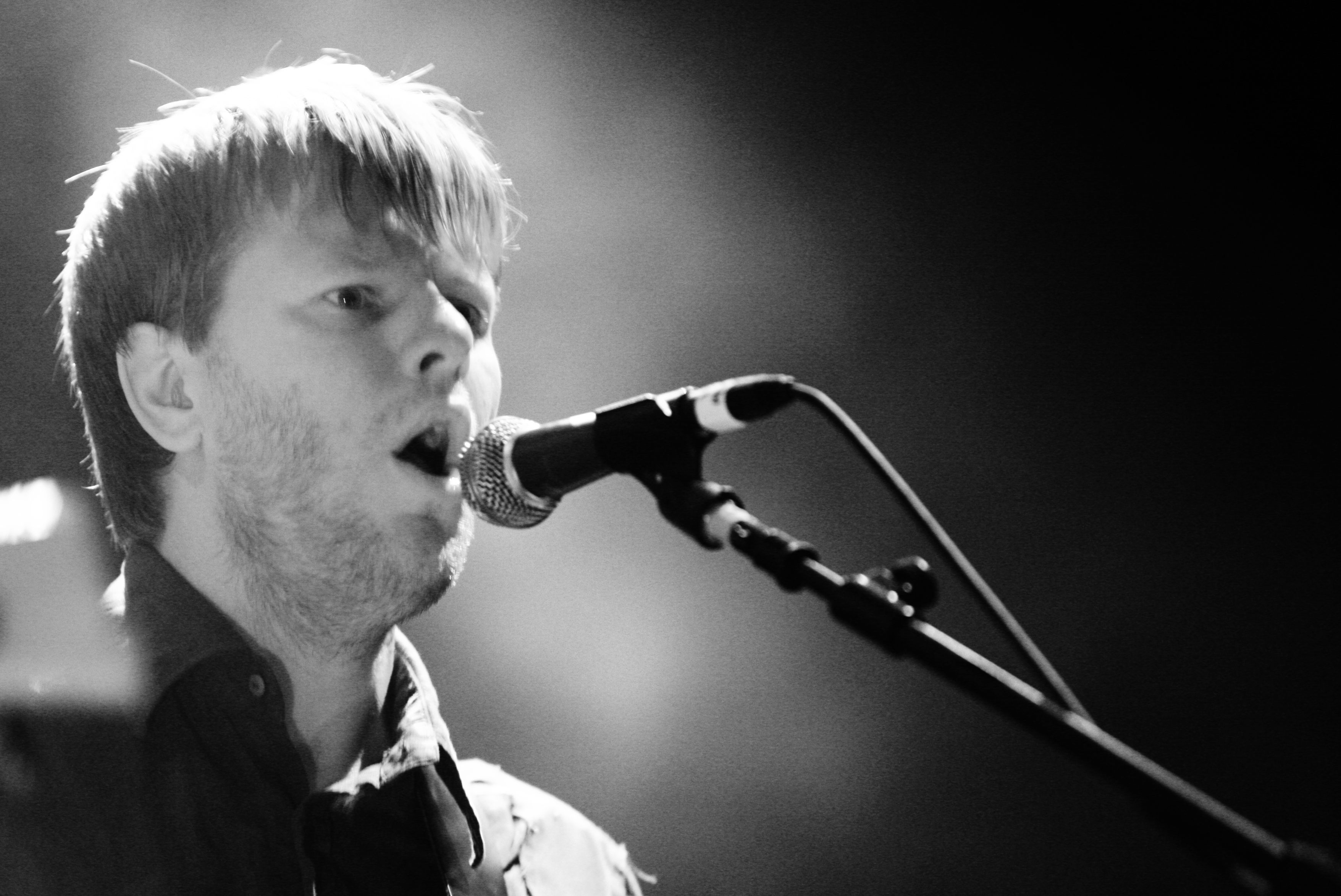 Arcade Fire at the Eurockéennes of 2007